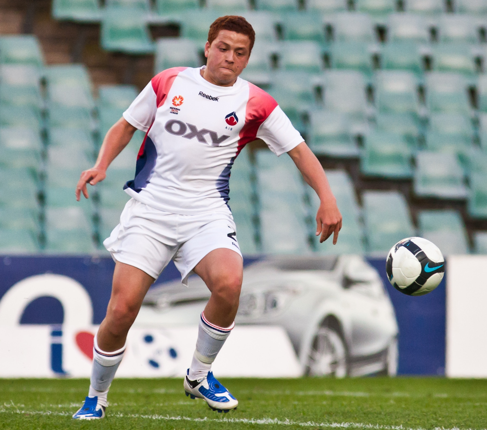 Mustafa Amini playing for the AIS